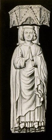 Philip III of Navara